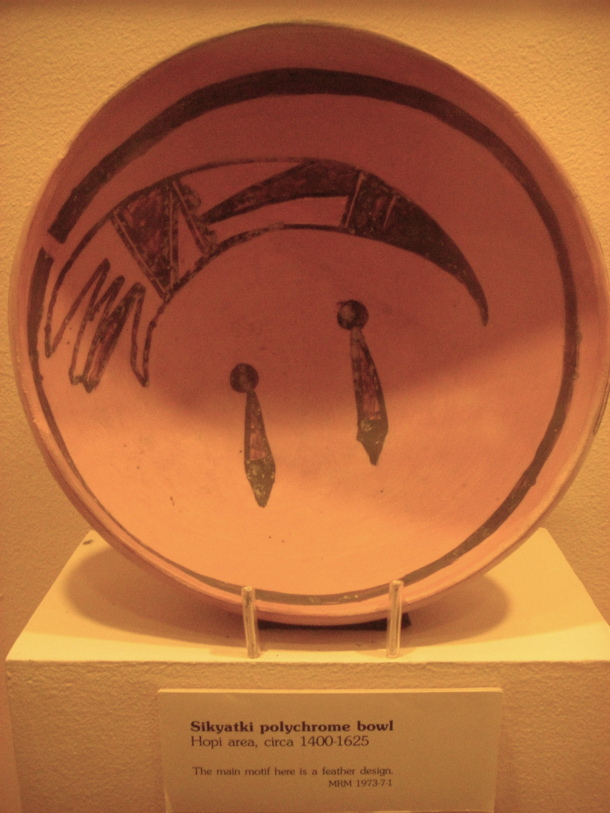 Decorated bowl from the ruins of the former Hopi village of Sikyátki, circa 1400-1625 AD; now located at the Millicent Rogers museum in Taos, New Mexico